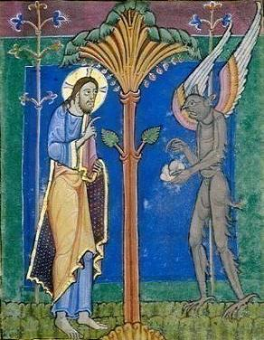 Temptation of Christ, from St. Albans Psalter, Hildesheim